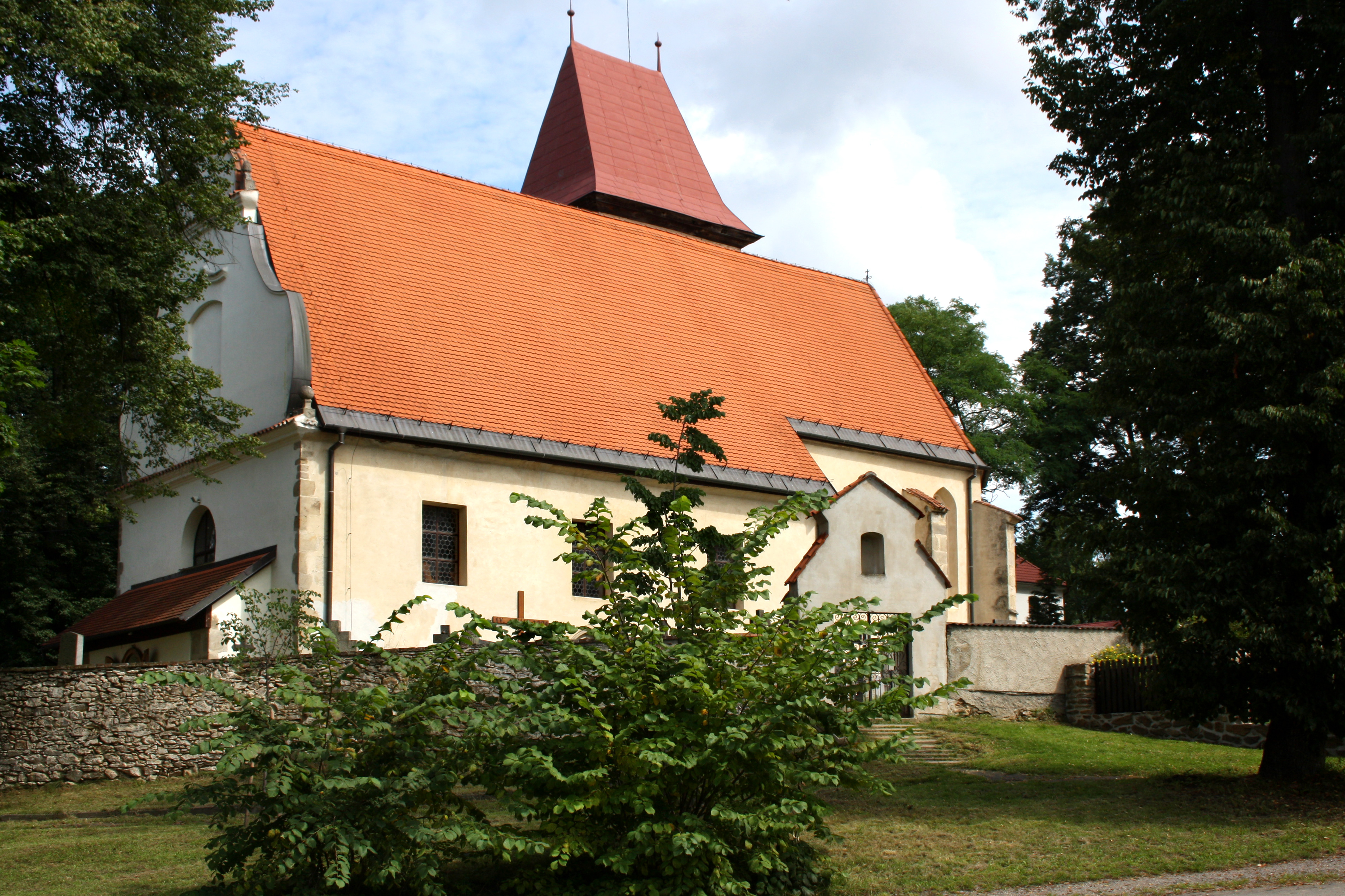 Church in Chvojnov, part of Pelhřimov, Czech Republic